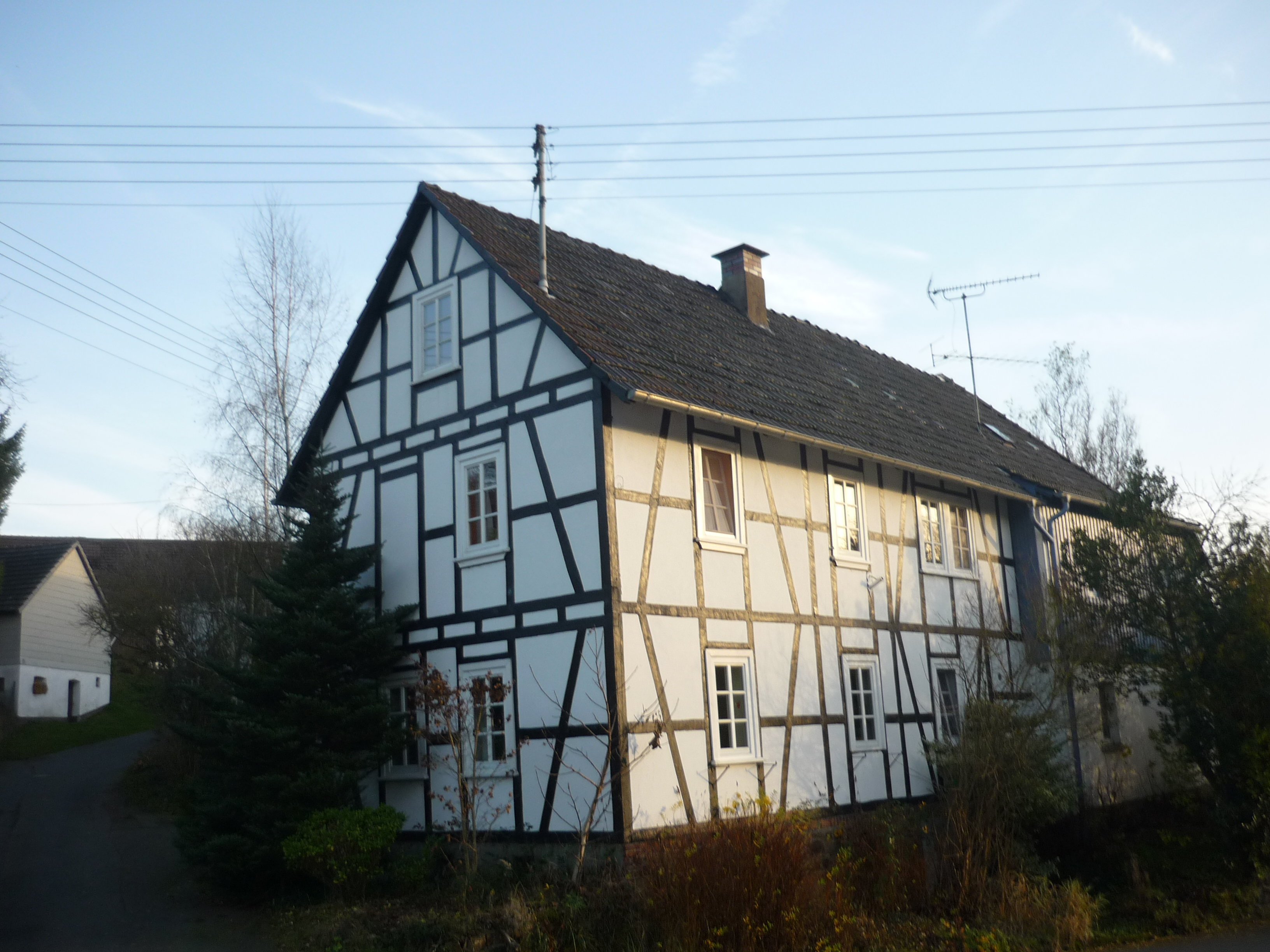 soerth westerwald